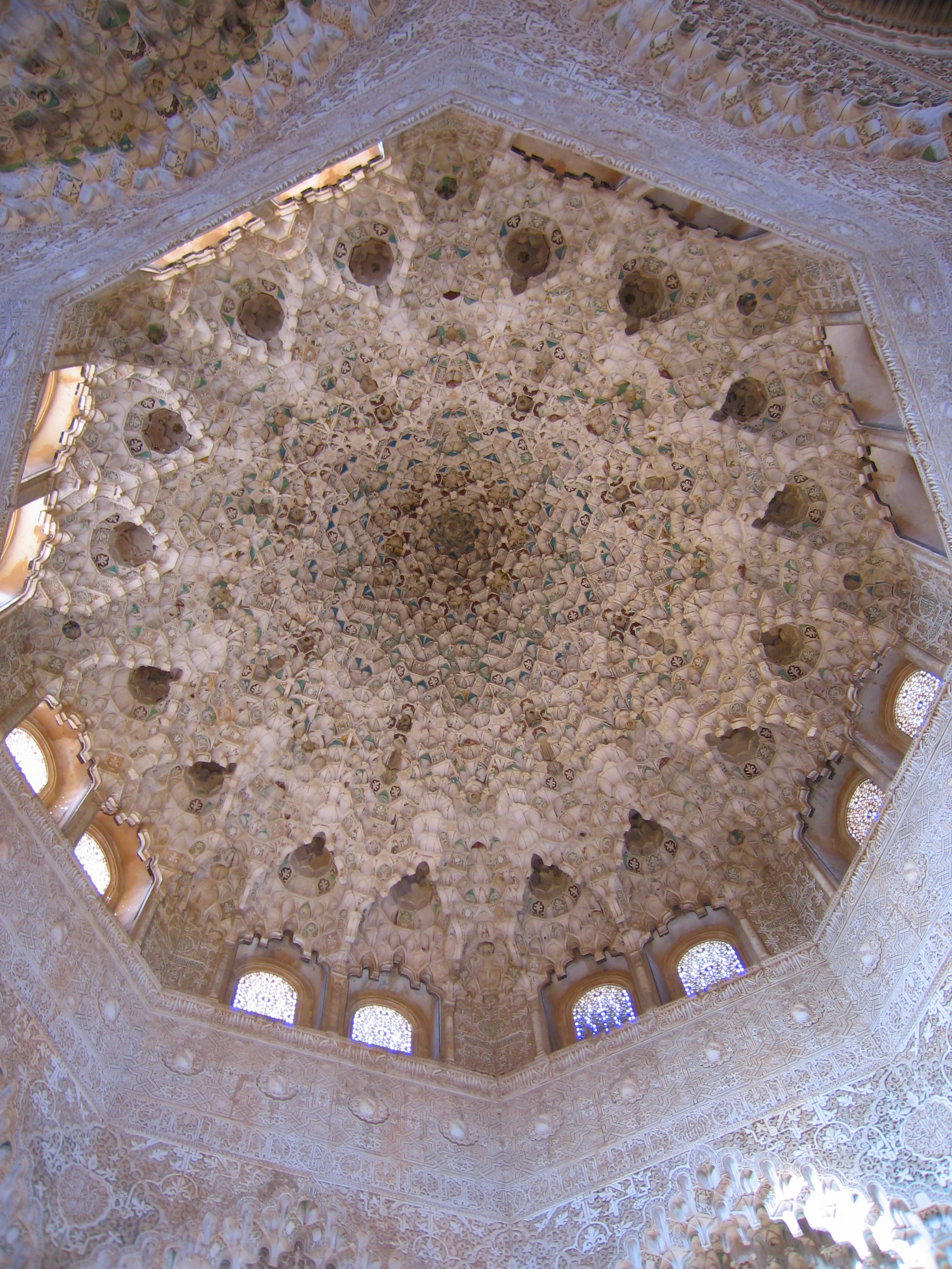 Hall of the Two Sisters: Alhambra, Granada, SpainPalacio Nazaries, Alhambra, Granada